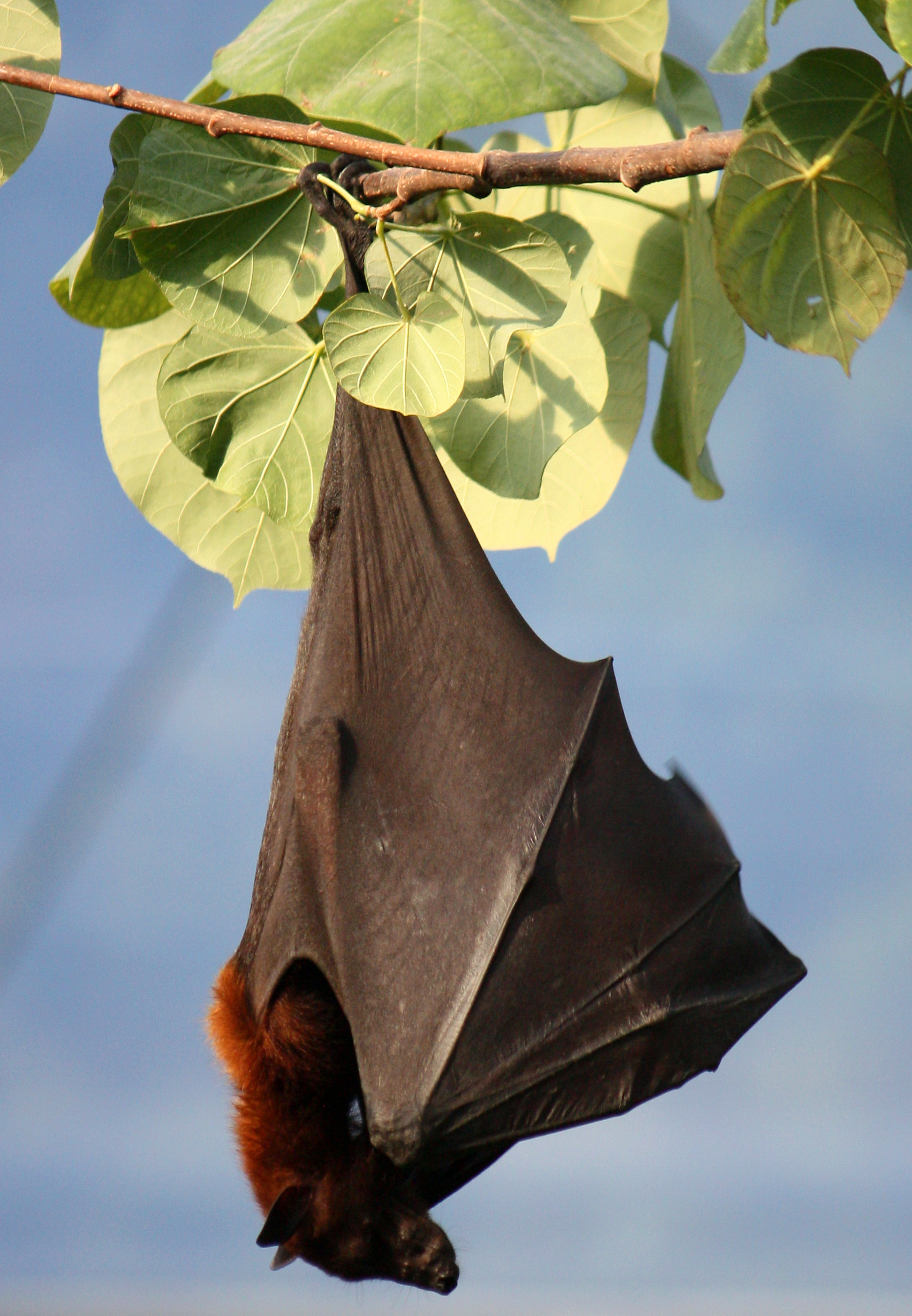 Large Flying Fox or kalong (Pteropus vampyrus) in ZOOM Gelsenkirchen (Germany)